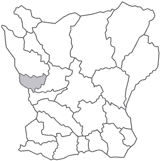 Map describing the location of Rönneberga Hundred in the province of Skåne, Sweden.